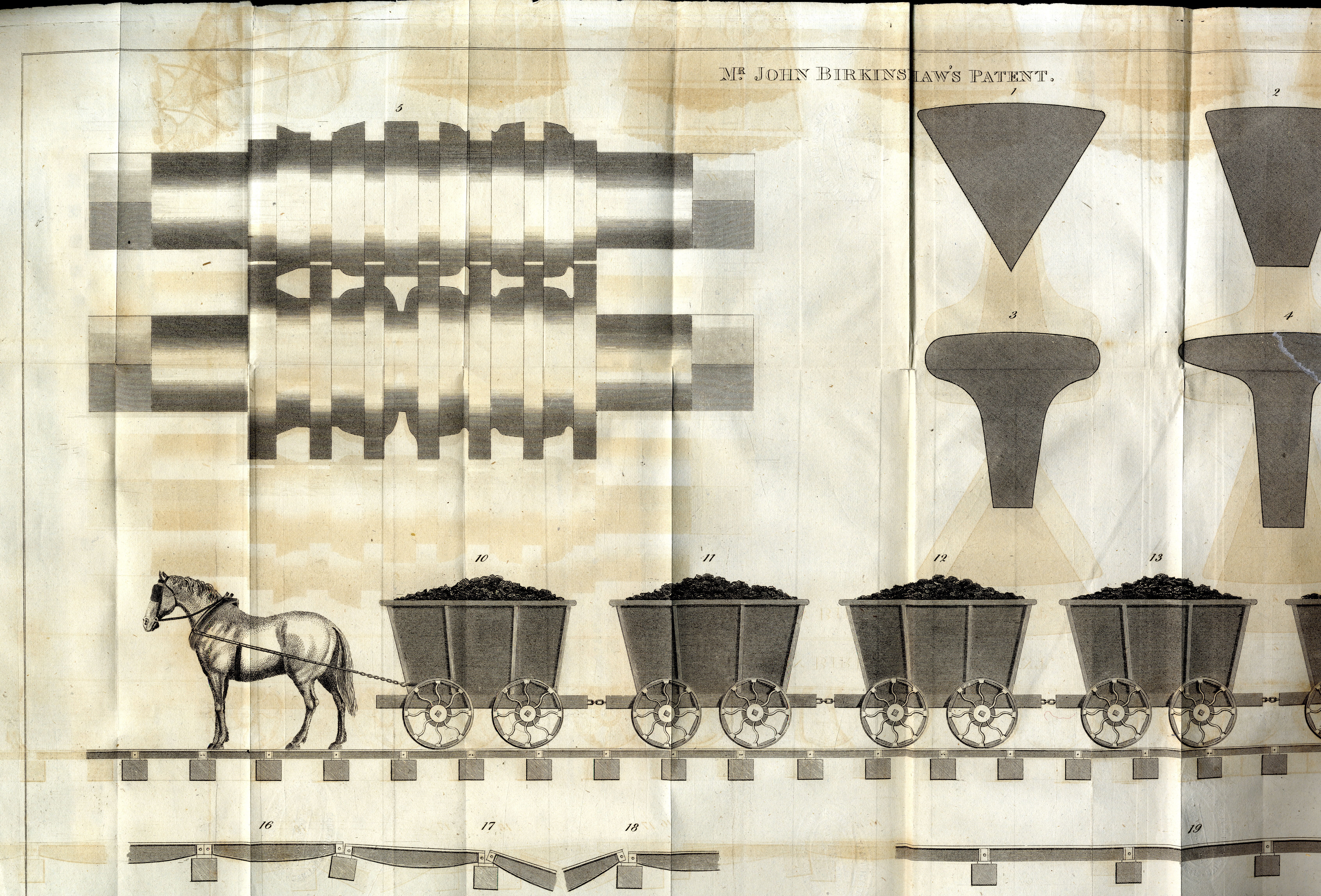 Plate scanned in two elements. Plate description accompanies. John Birkinshaw's patent for Malleable Iron Rails 1821 original tract held in the North of England Institute of Mining and Mechanical Engineers and uploaded with the authority of their librarian Jennifer Hillyard.